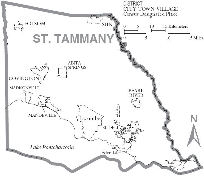 Map of St. Tammany Parish, Louisiana, United States with municipal boundaries